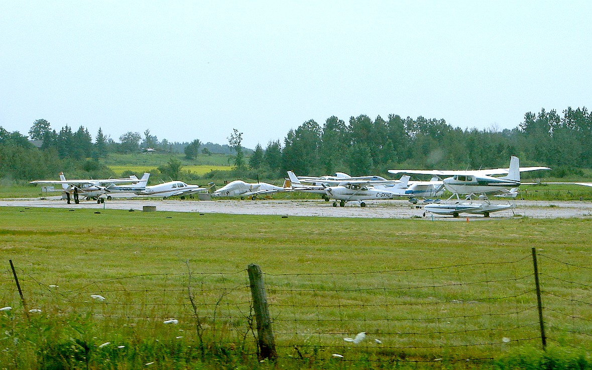 Lindsay Airport (City of Kawartha Lakes), Ontario, Canada